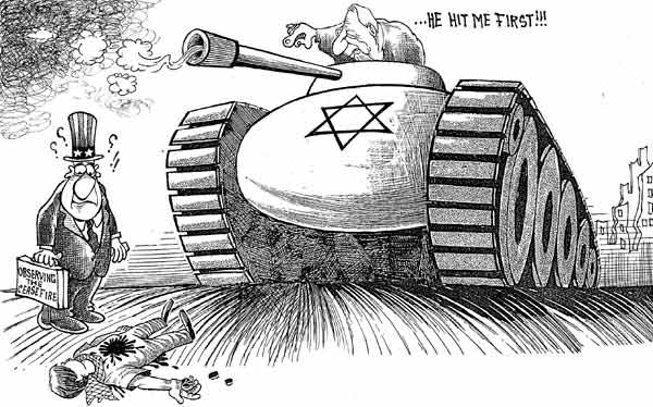 Sharon in the Middle East by Mahmoud Kahil